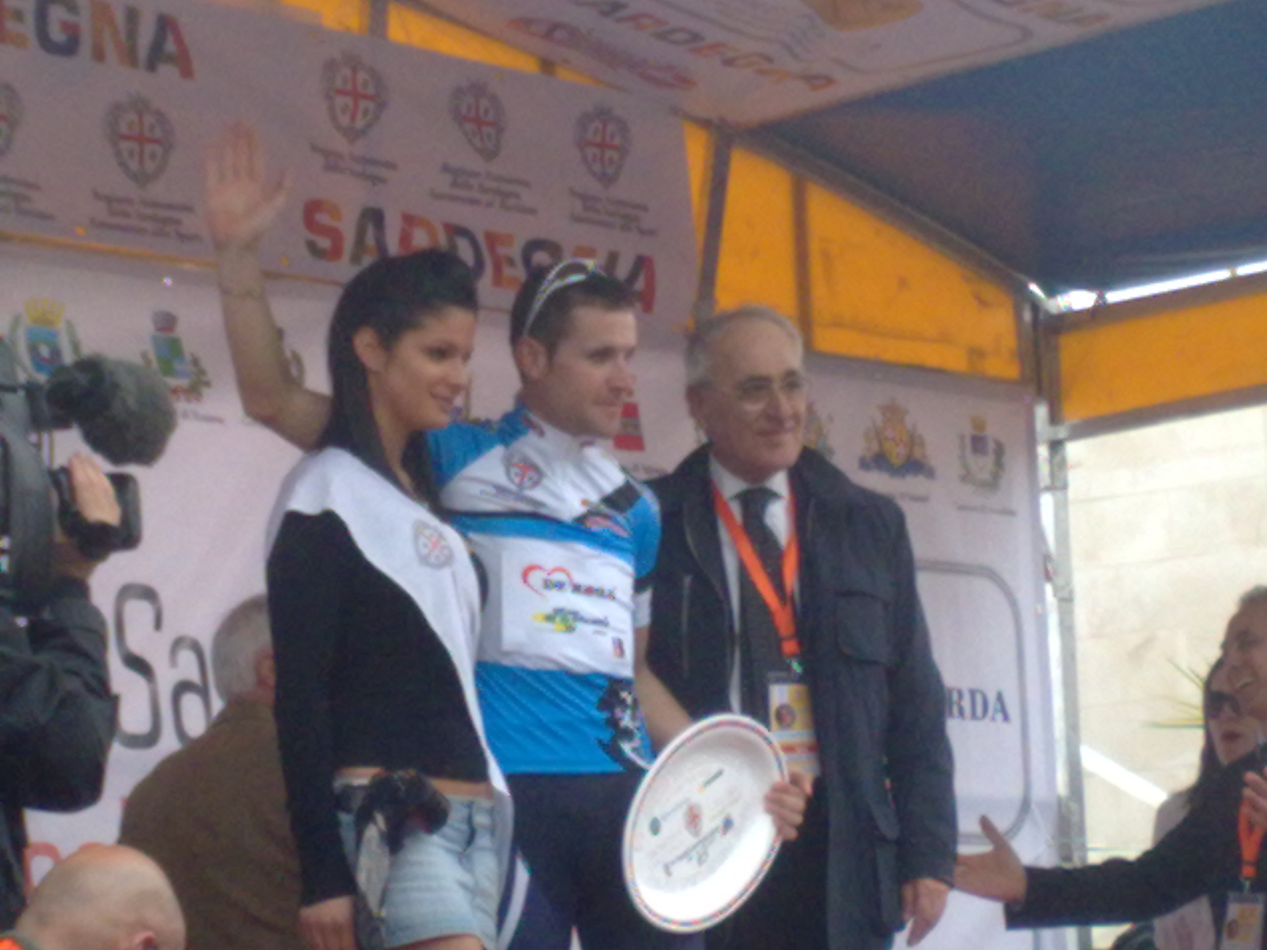 Podium of the blue shirt of the Tour of Sardinia (cycling)